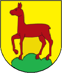 Coat of arms of the district of Thierstein, Canton of Solothurn, Switzerland